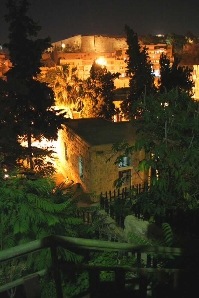 Mohtaraf Remal...the oasis of arts Its an artistic complex, for all kinds of arts: music,theater,cinema,literature,and visual arts. Remal contains: art gallery,theater,cinema,art workshops,classrooms for art lessons,and a sm